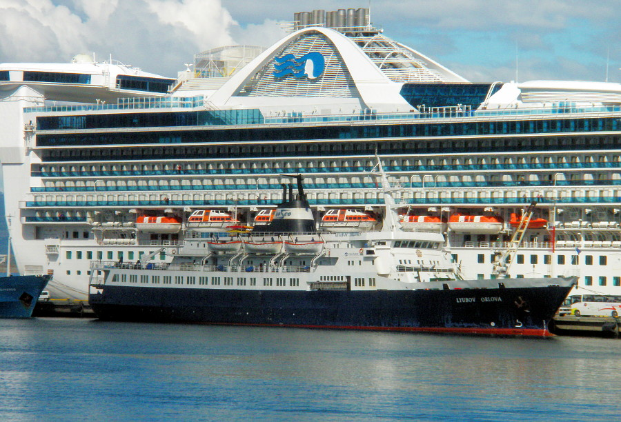 M/V Lyubow Orlova waiting for passengers in Puerto Commercial, Ushuaia, Argentina (Tierra Del Fuego). In the background - a gargantuic vessel "Star Princess".